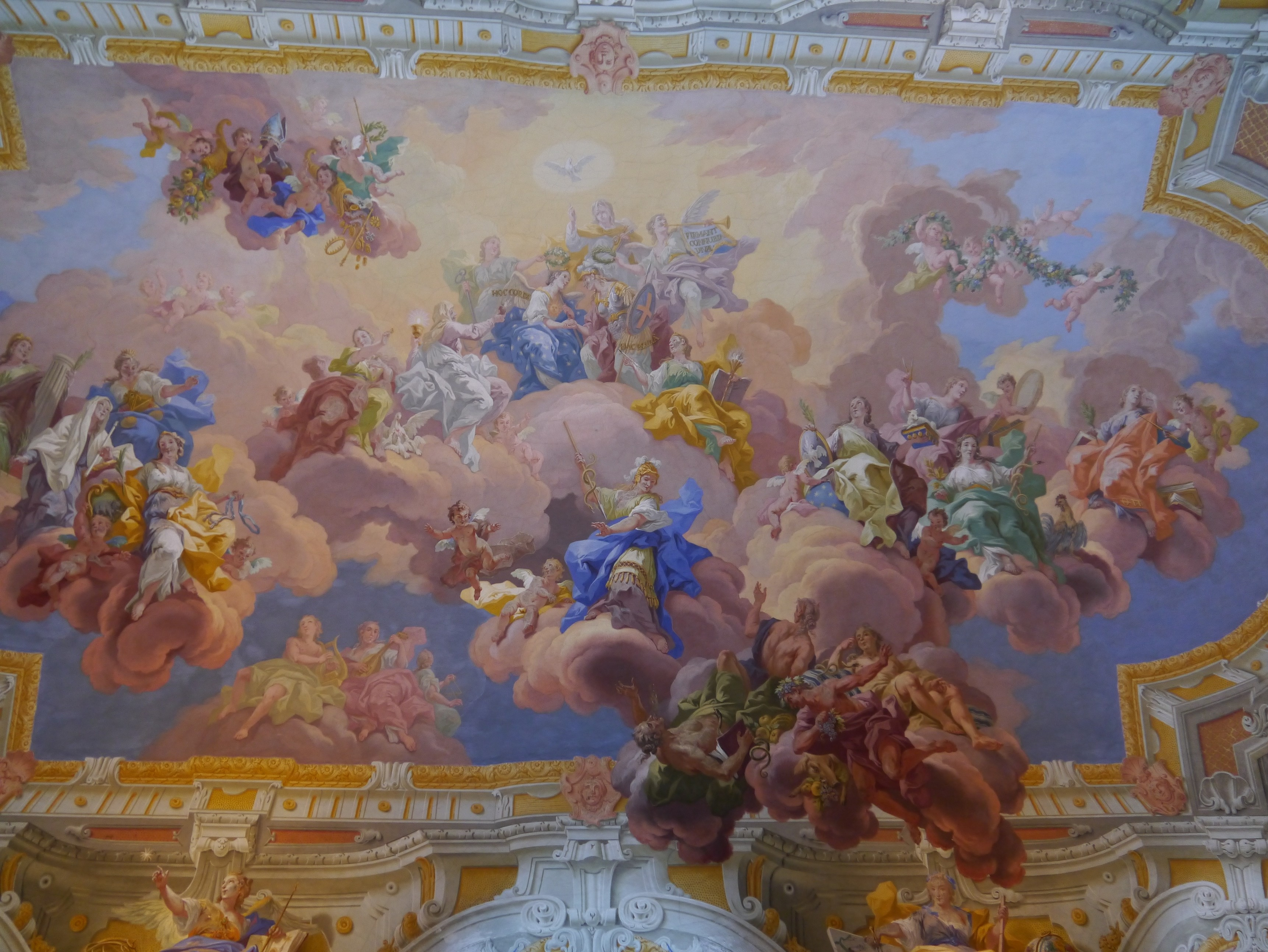 Ceiling of the library at St. Florian Abbey, Sankt Florian, Upper Austria